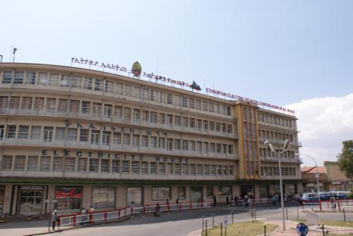 Ethiopian electric power corporation siege, Addis Abeba, Ethiopia